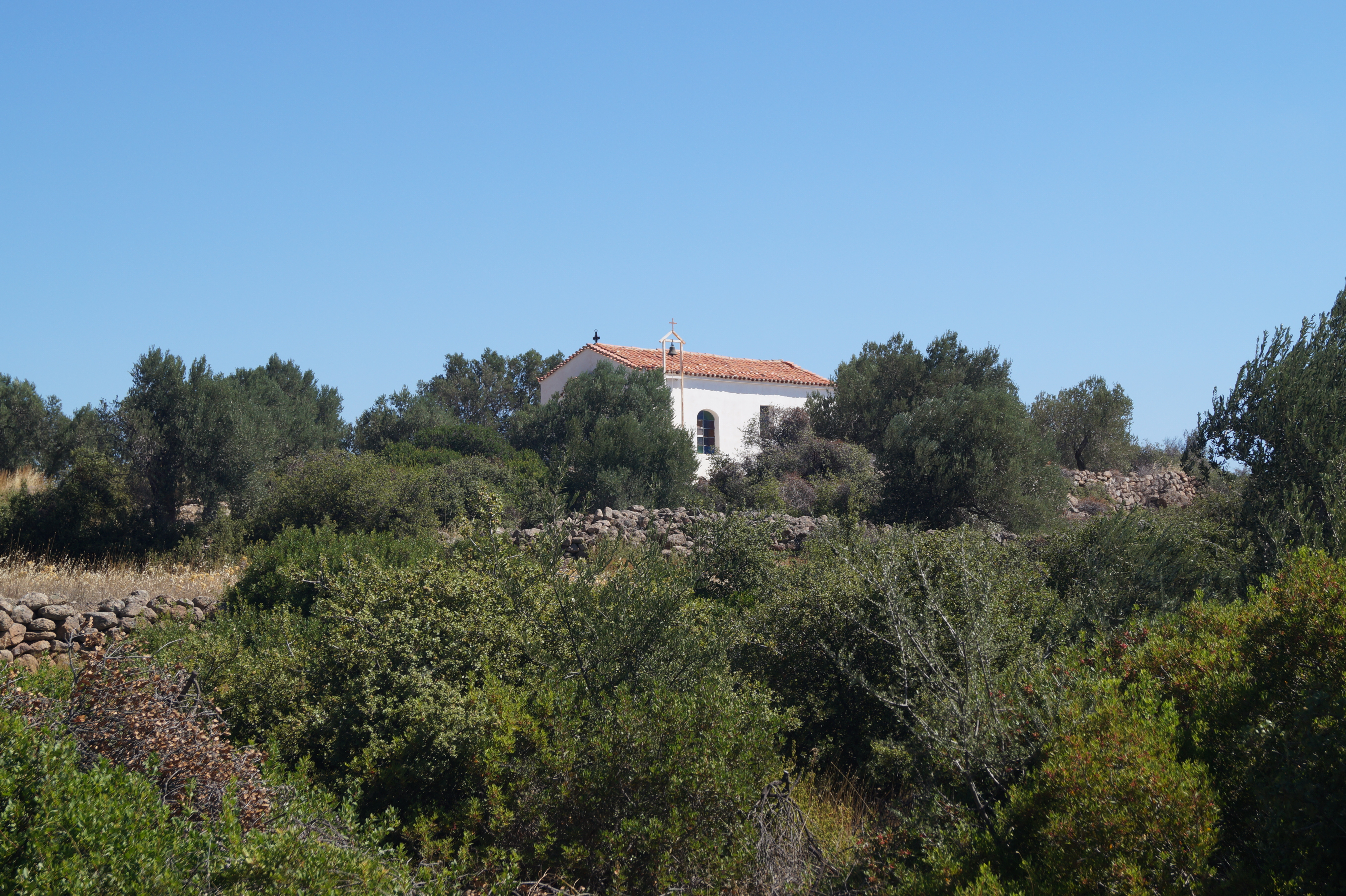 Methana, Greece: Archaeological Site of Agios Konstantinos: Church of Agii Konstantinos kai Eleni.